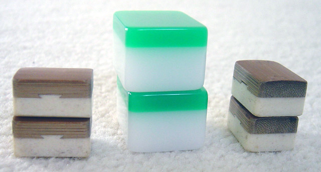 Comparing old and modern mahjong tiles. This picture shows the modern mahjong tiles in contrast with the old tiles. The modern tiles are made of hard plastic. The old tiles shown here are made of ivory with bamboo backings. The two layers are dovetailed together. According to the owner of these tiles, the modern tiles were purchased new in Hong Kong back in the 1980's. The old tiles were acquired used by the family in some kind of junkyard sale back in the 1960s. Small tiles were out of favor in Hong Kong back then. The age of the tiles is unknown.